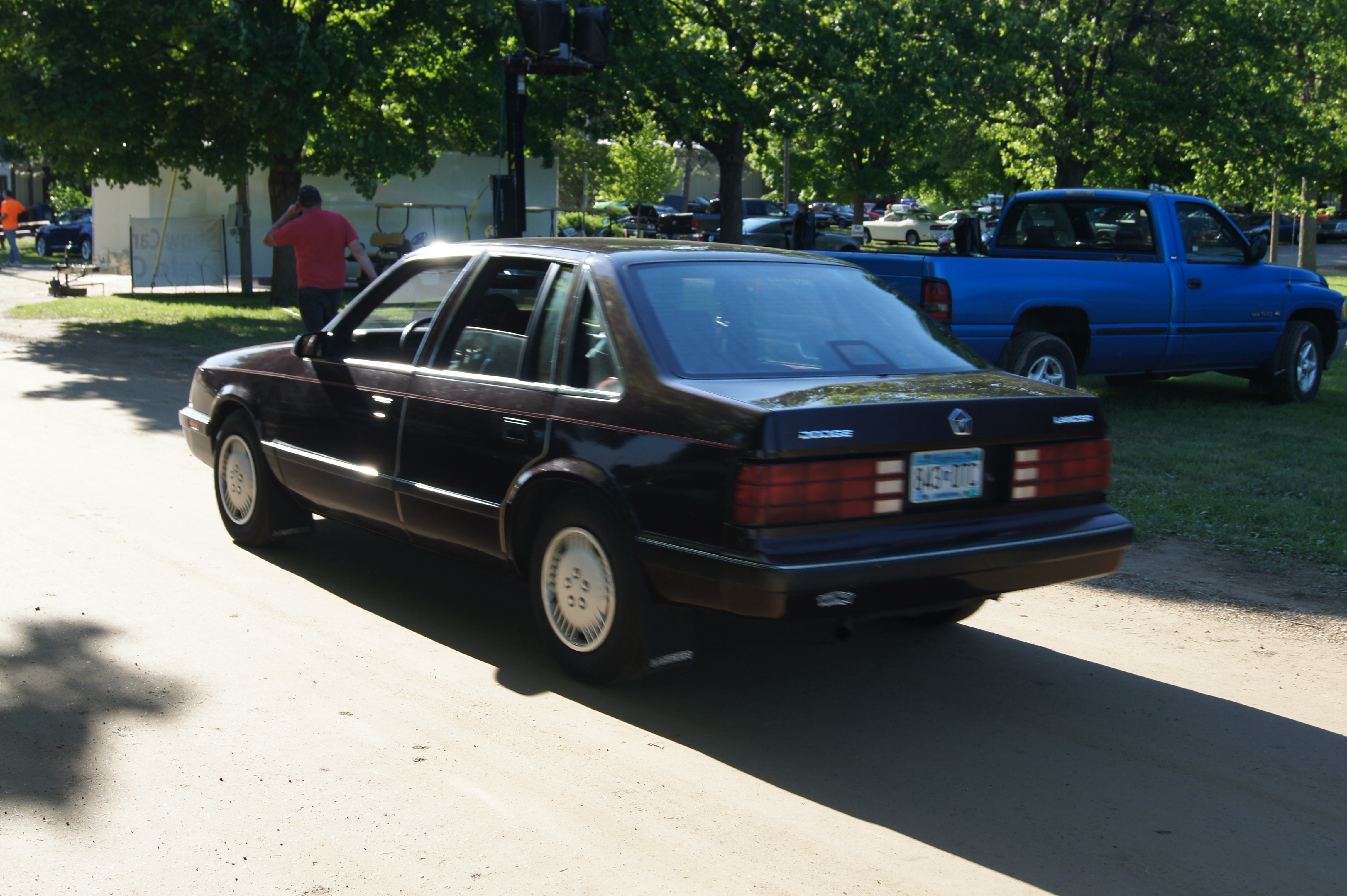 Midwest Mopars in the Park National Car Show & Swap Meet Dakota County Fairgrounds Farmington, Minnesota May 30 & 31, 2015 Click here for more car pictures at my Flickr site.